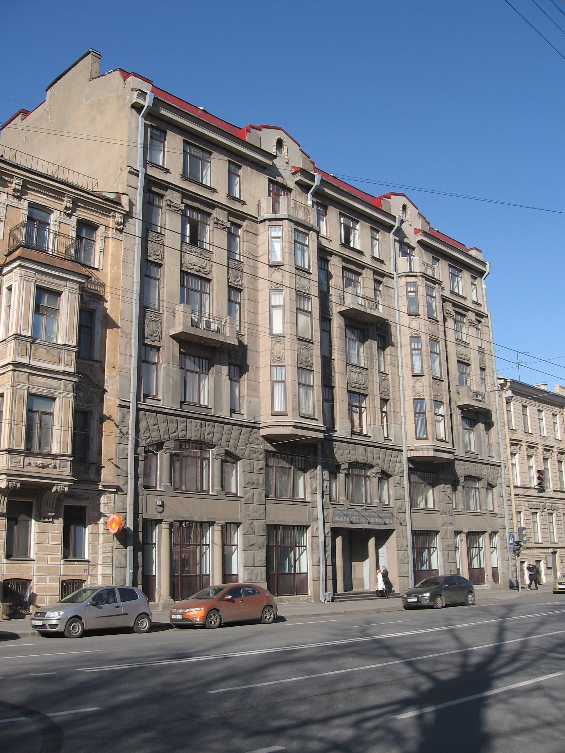 Faculty of Journalism, Saint Petersburg State University